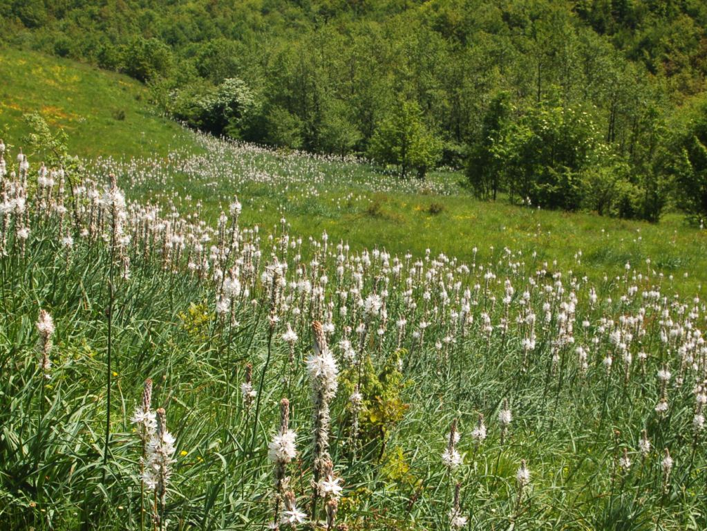 Zerynthia polyxena - Habitat - Regional Park of Capanne di Marcarolo (Piedmont), abt. 900 m. a.s.l.